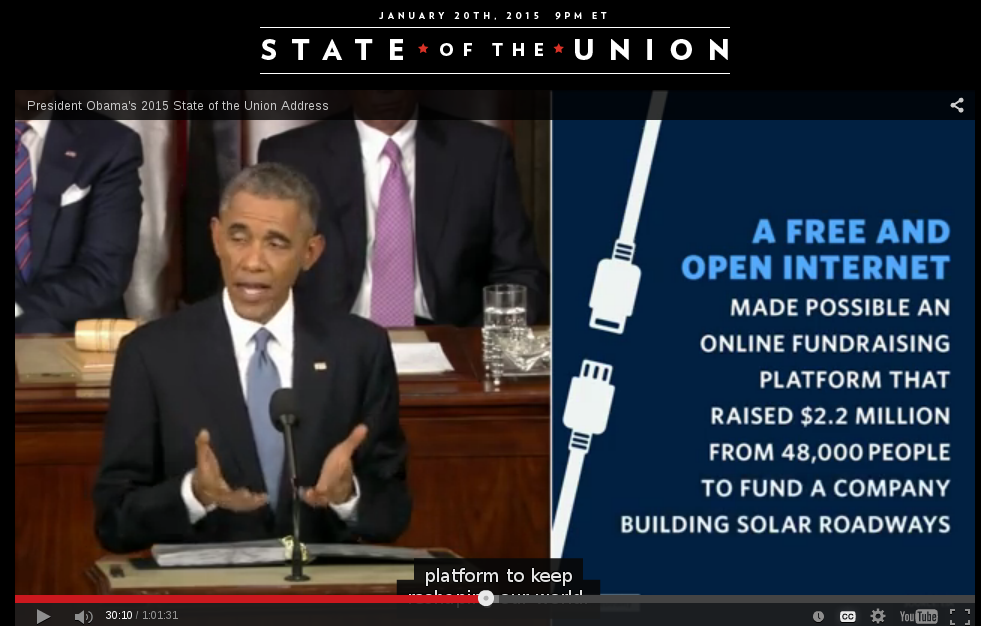 From video of January 2015 State of the Union speech by President Obama, enhanced by the White House with commentary, about "Free and open internet" that allowed Indegogo (unnamed) to raise money for Solar Roadways. Minute 30:11